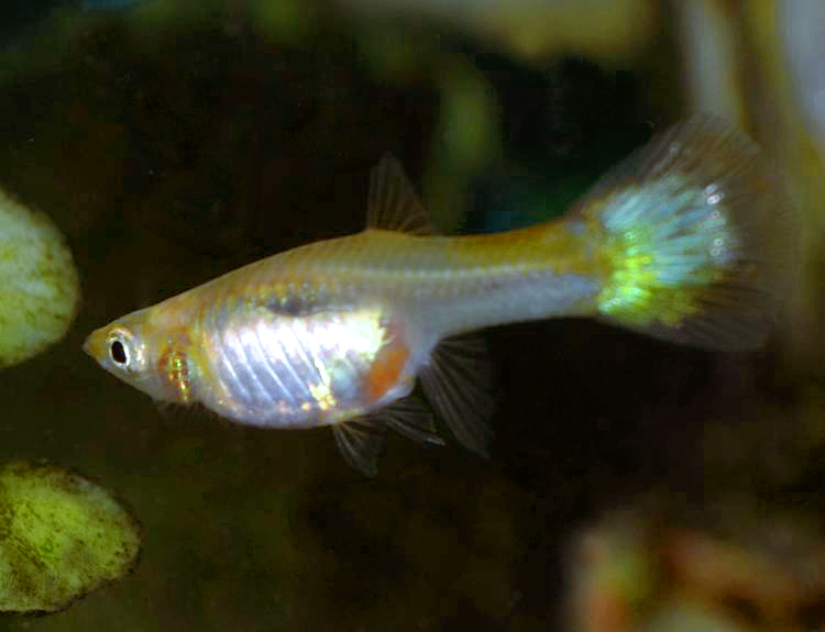 A female guppy (Poecilia reticulata)